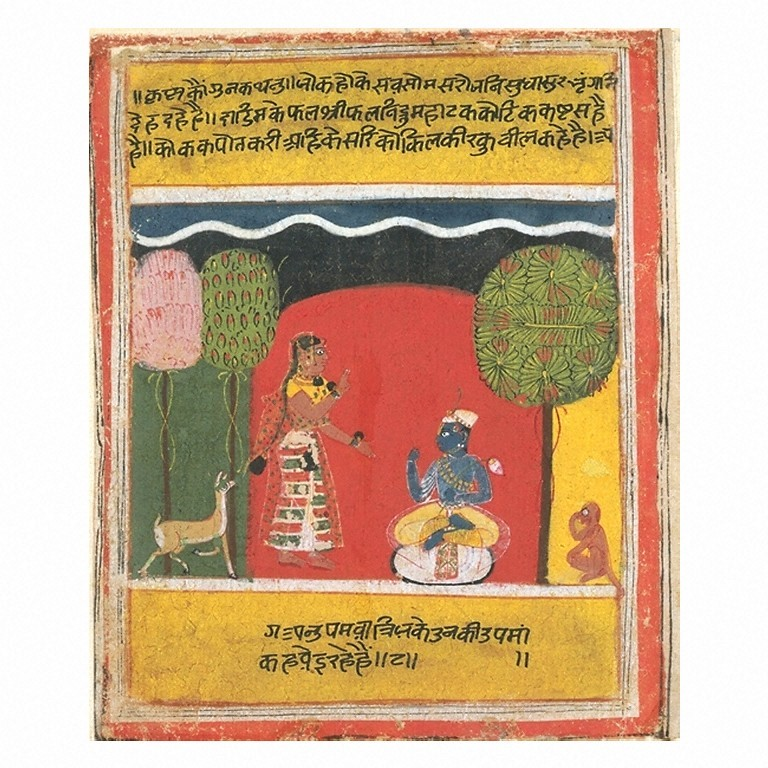 Radha and Krishna in Rasikapriya, ca1634. Opaque watercolour on paper. Malwa, India